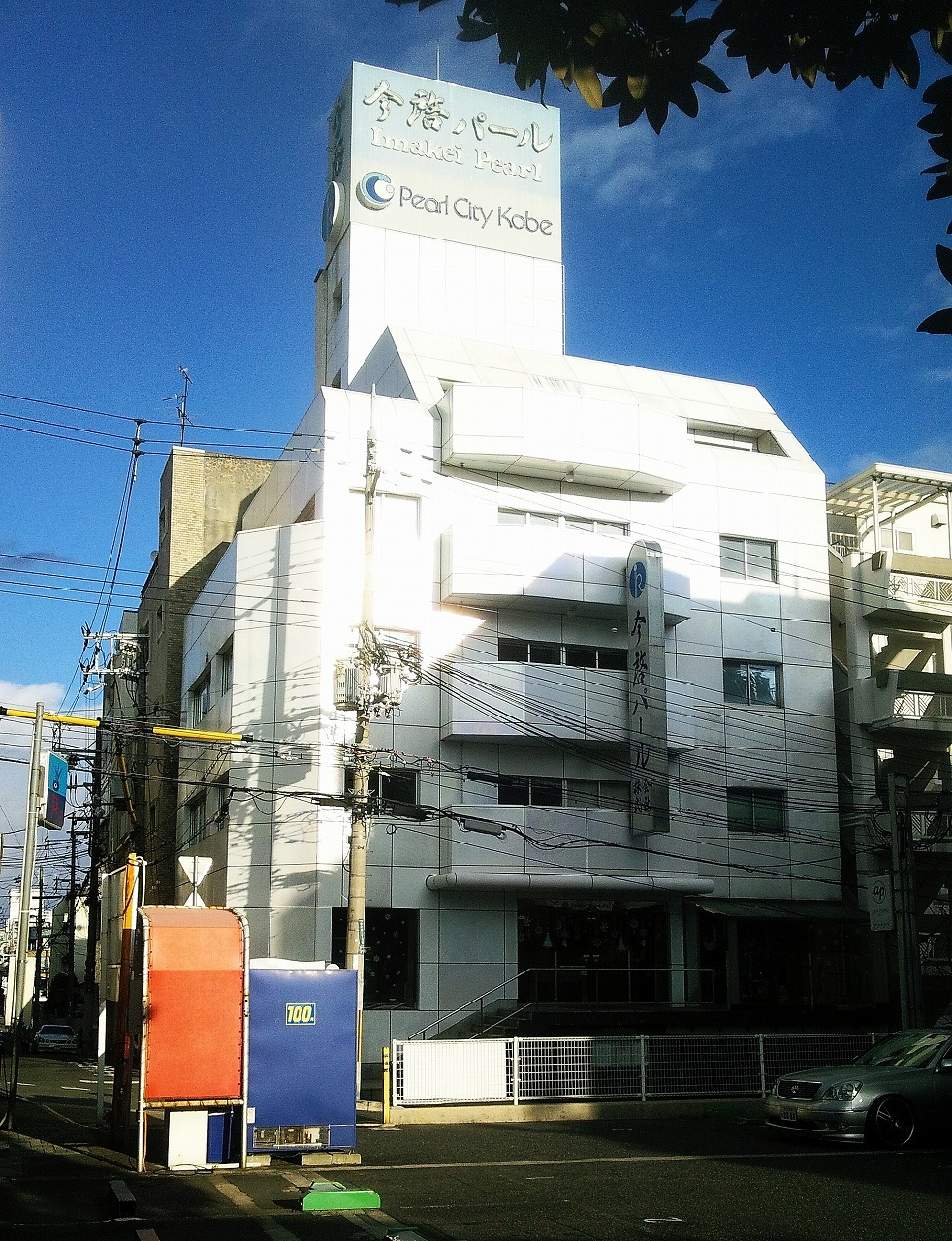 Imakei pearl-Building Yamamoto-dori,Chuoku,Kobe